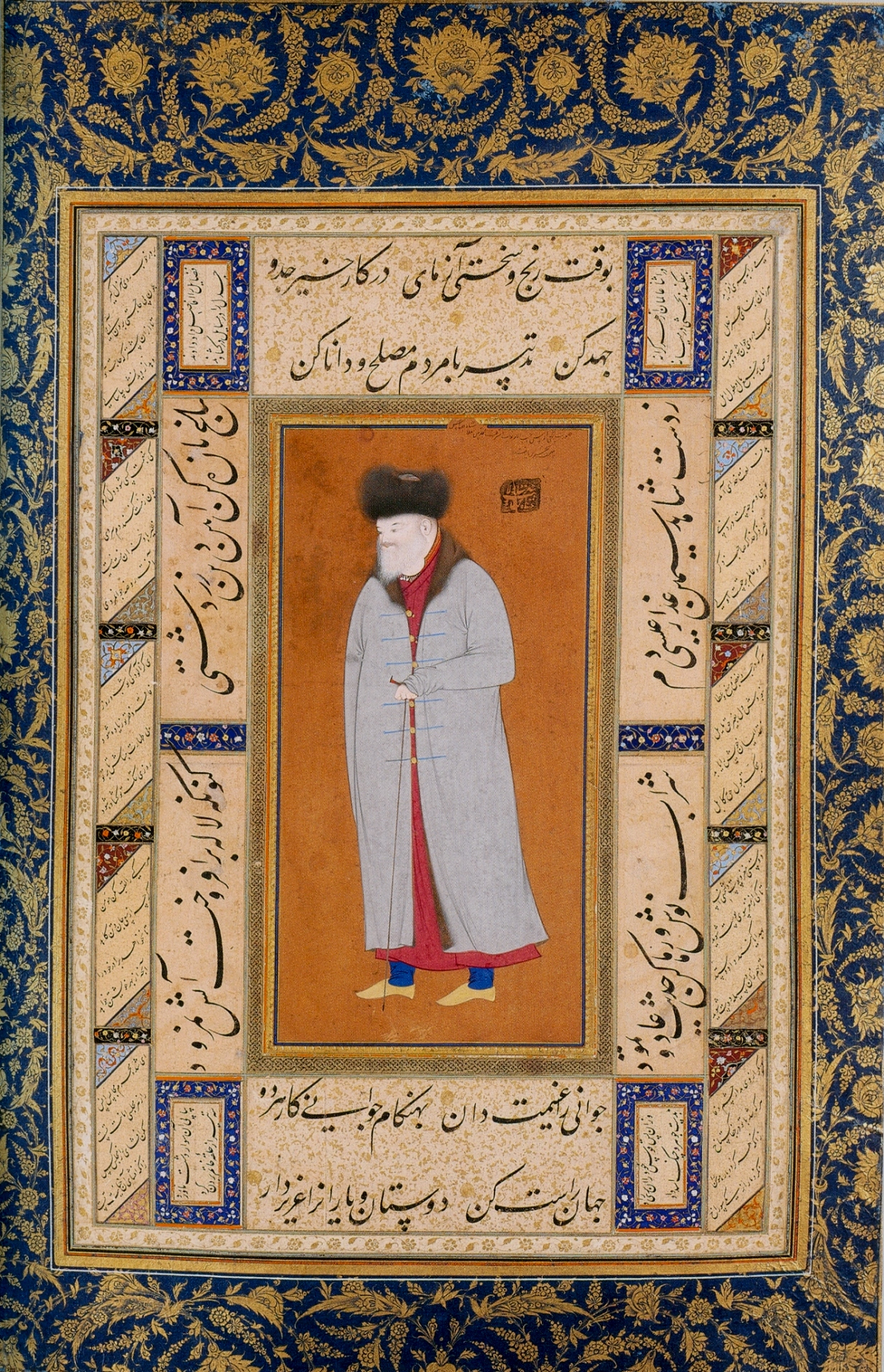 Muhammadi._Portrait_of_Russian_Ambassador._(G.B._Vasilchikov)_Herat,_1580s.Topkapi_Palace_Museum